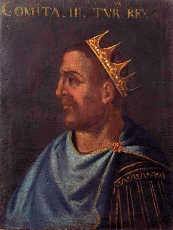 Judge of Giudicato of Logudoro (Torres)